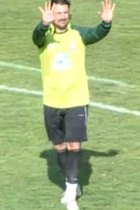 Photo taken by myself of Dale Belford during the Wrexham Vs. Tamworth game on April 25 2011 at Racecourse Ground.